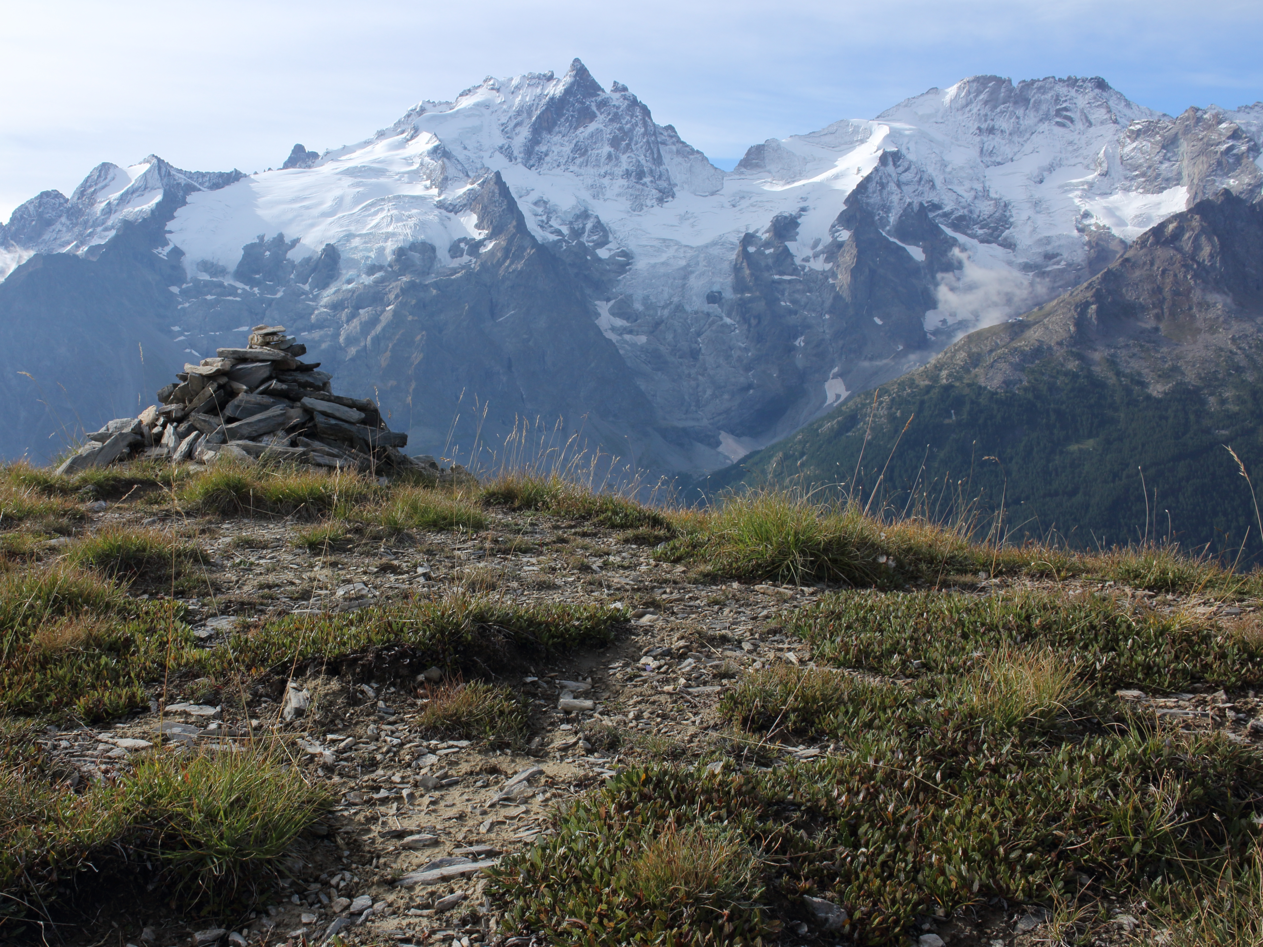 Le Signal de la Grave, (2446 m.). Cairns are landmarks in a mountain landscape.